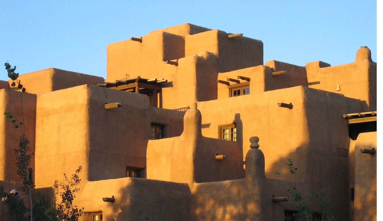 Hotel "Inn and Spa at Loretto" near to the Plaza in Santa Fe, New Mexico (alternative view provided here.